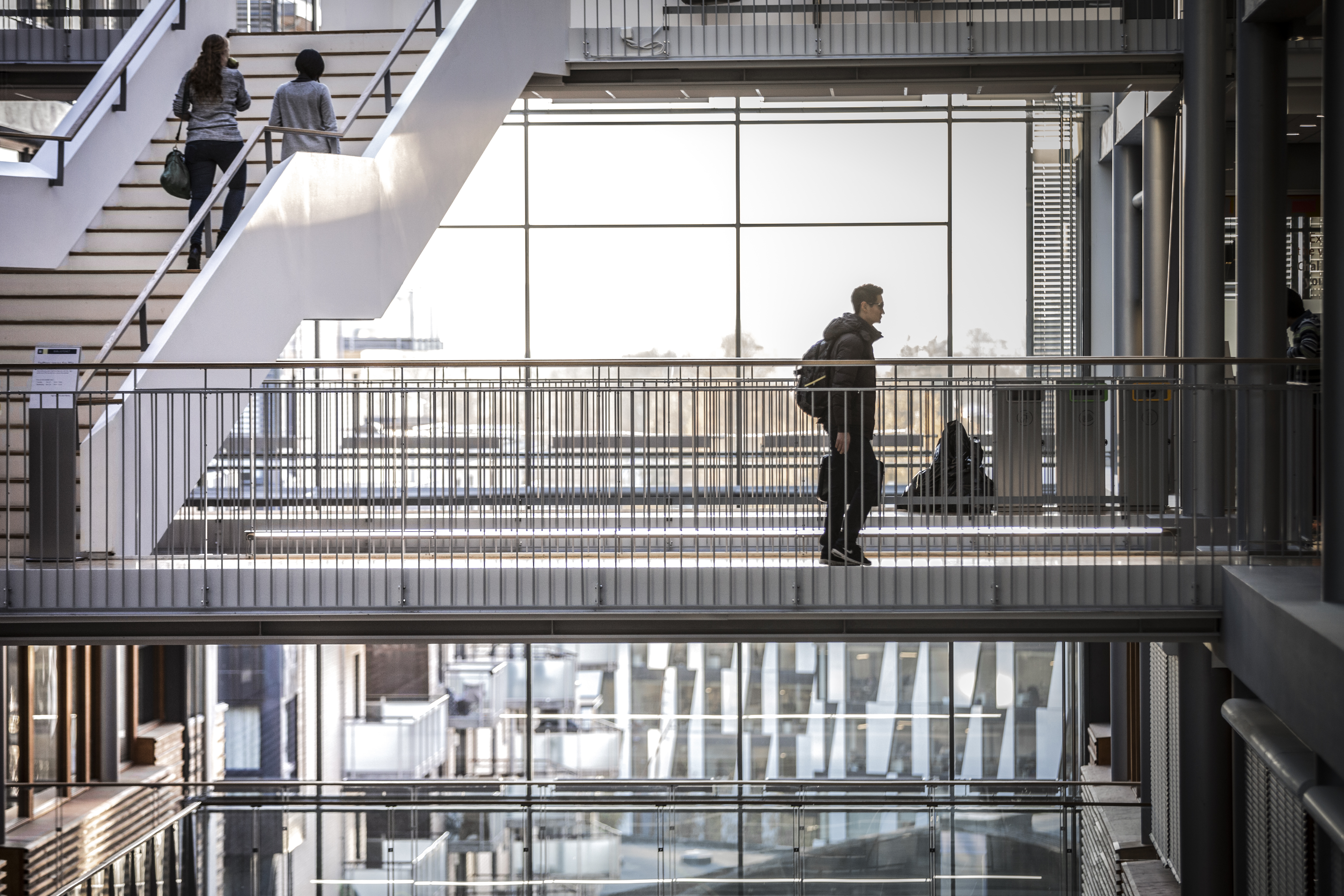 PIC